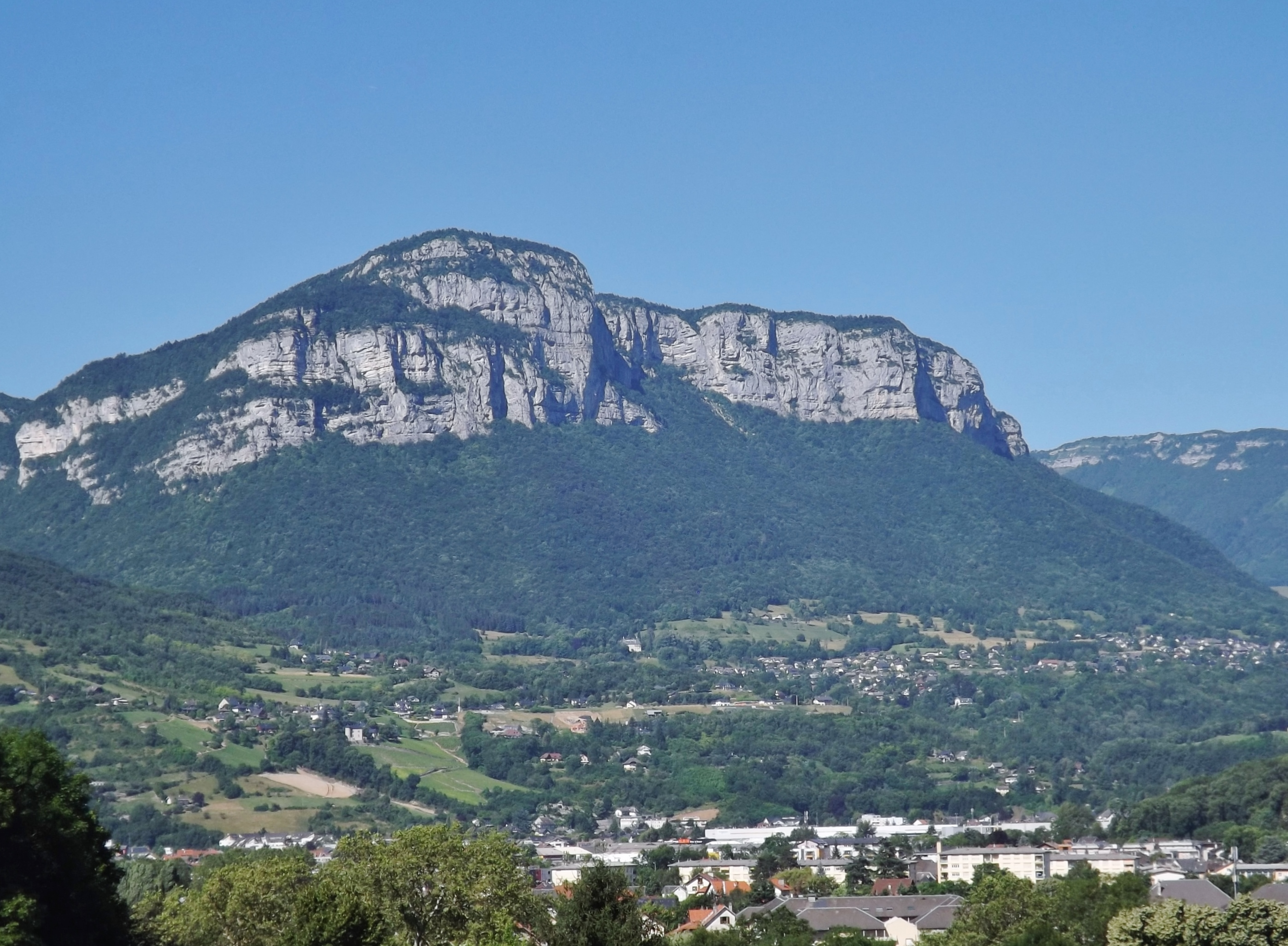 Sight, from Chambéry, of the mont Peney (1,356 meters high), in Savoie, France.